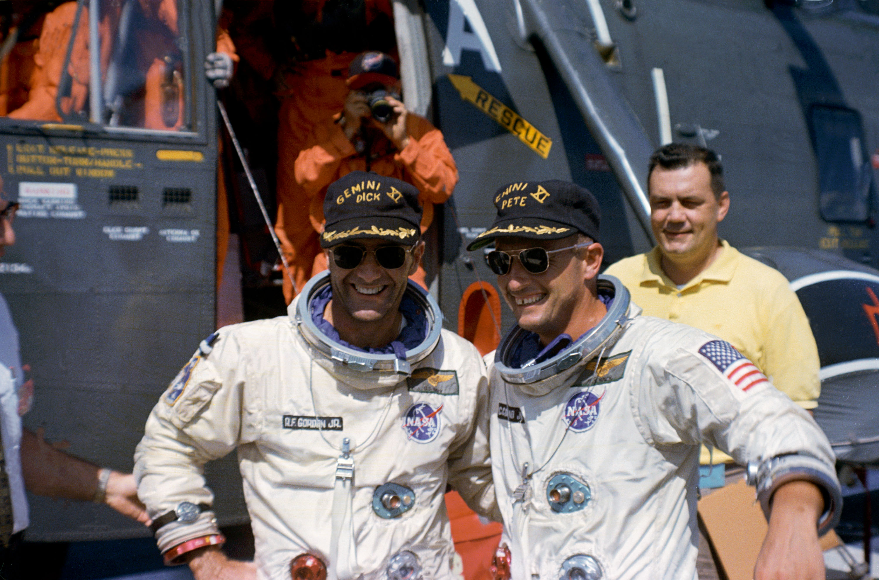 S66-50752 (September 15, 1966) - Astronauts Charles Conrad Jr. (right) and Richard F. Gordon, Jr. pose in front of the recovery helicopter which brought them to the U.S.S. Guam.